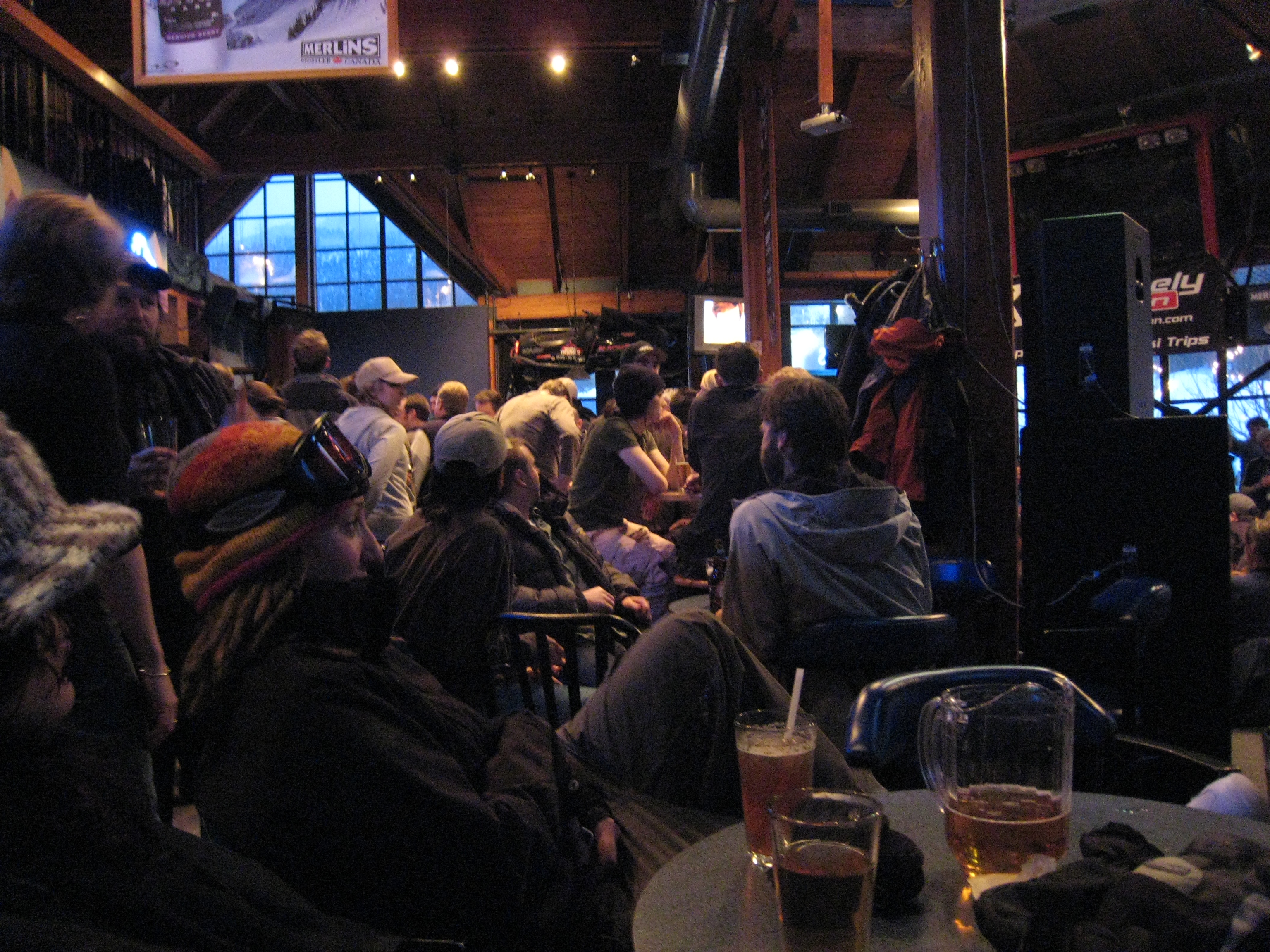 aprés at merlin's, Whistler B.C.